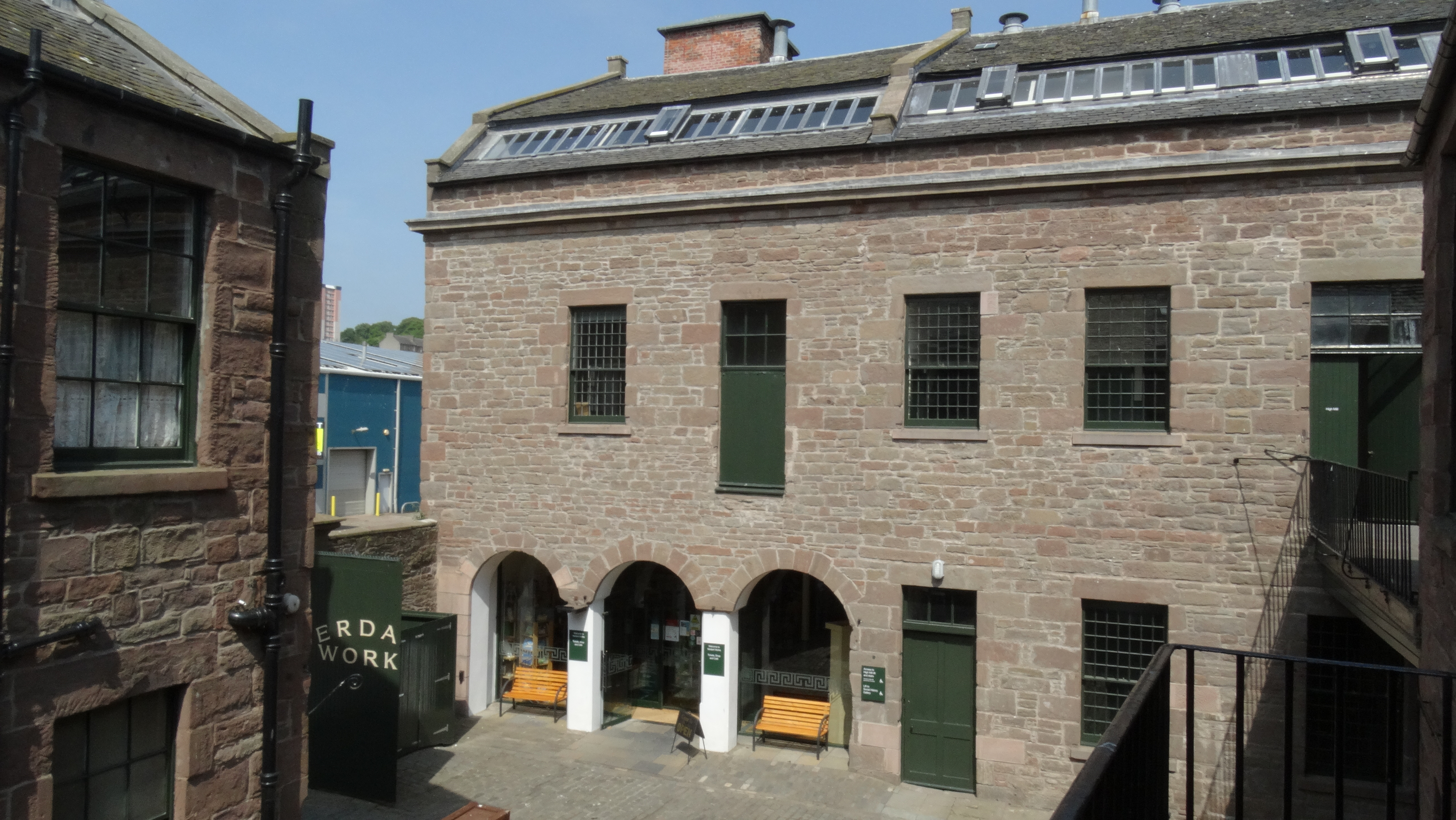 Dundee - Verdant Works Museum, courtyard